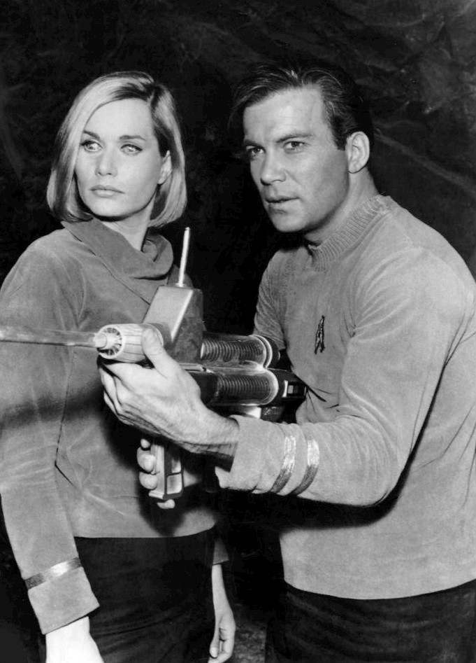 Photo of William Shatner as Captain Kirk and guest star Sally Kellerman as Elizabeth Dehner from the television program Star Trek: The Original Series. The episode is Where No Man Has Gone Before. This type 3 2260s style phaser appears only in this episode.